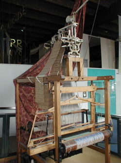 Jacquard loom on display at the Manchester museum of science and industry. Photograph taken by George H. Williams in July, 2004.